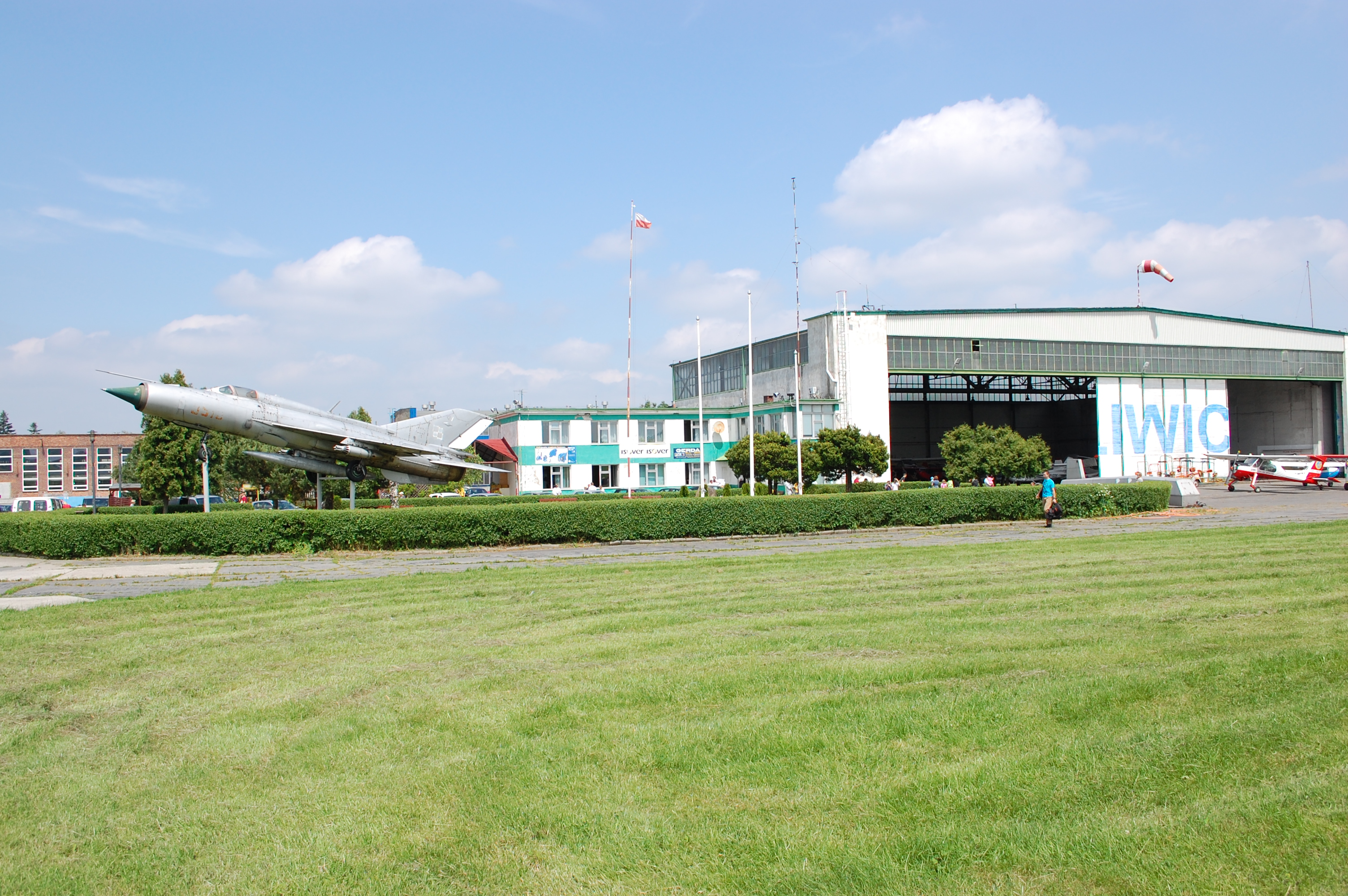 PZL-104 Wilga 35